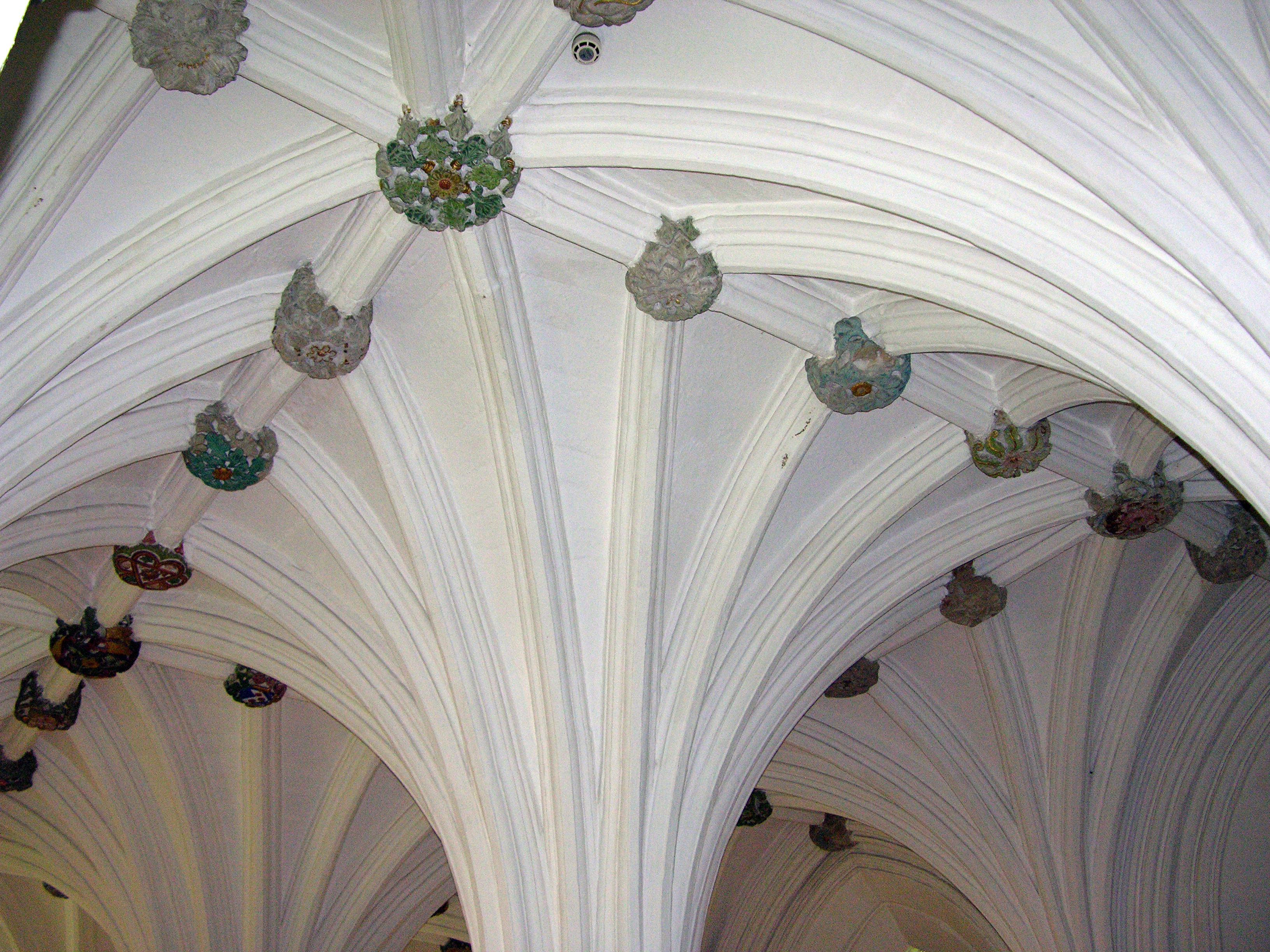 Glasgow Cathedral vaulted ceiling Wikidata has entry Q1473348 with data related to this item.